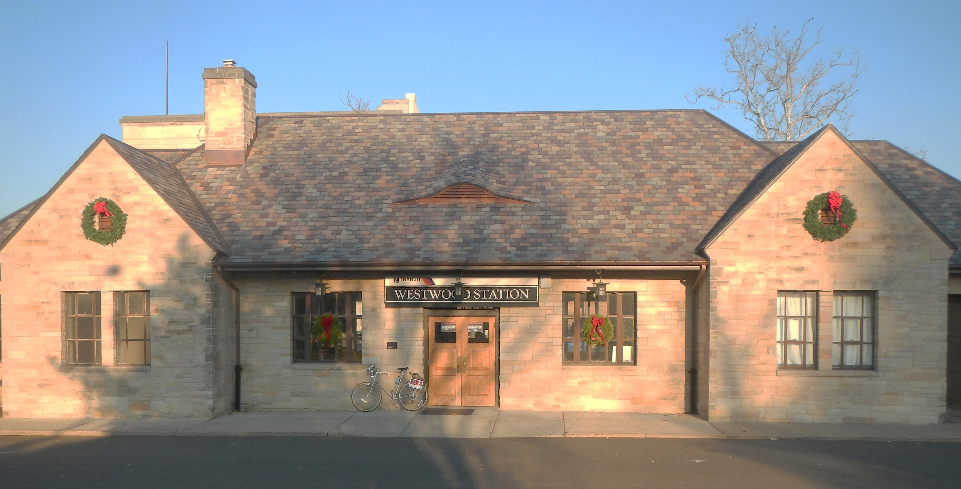 Looking east across lawn at station house on a sunny late afternoon.